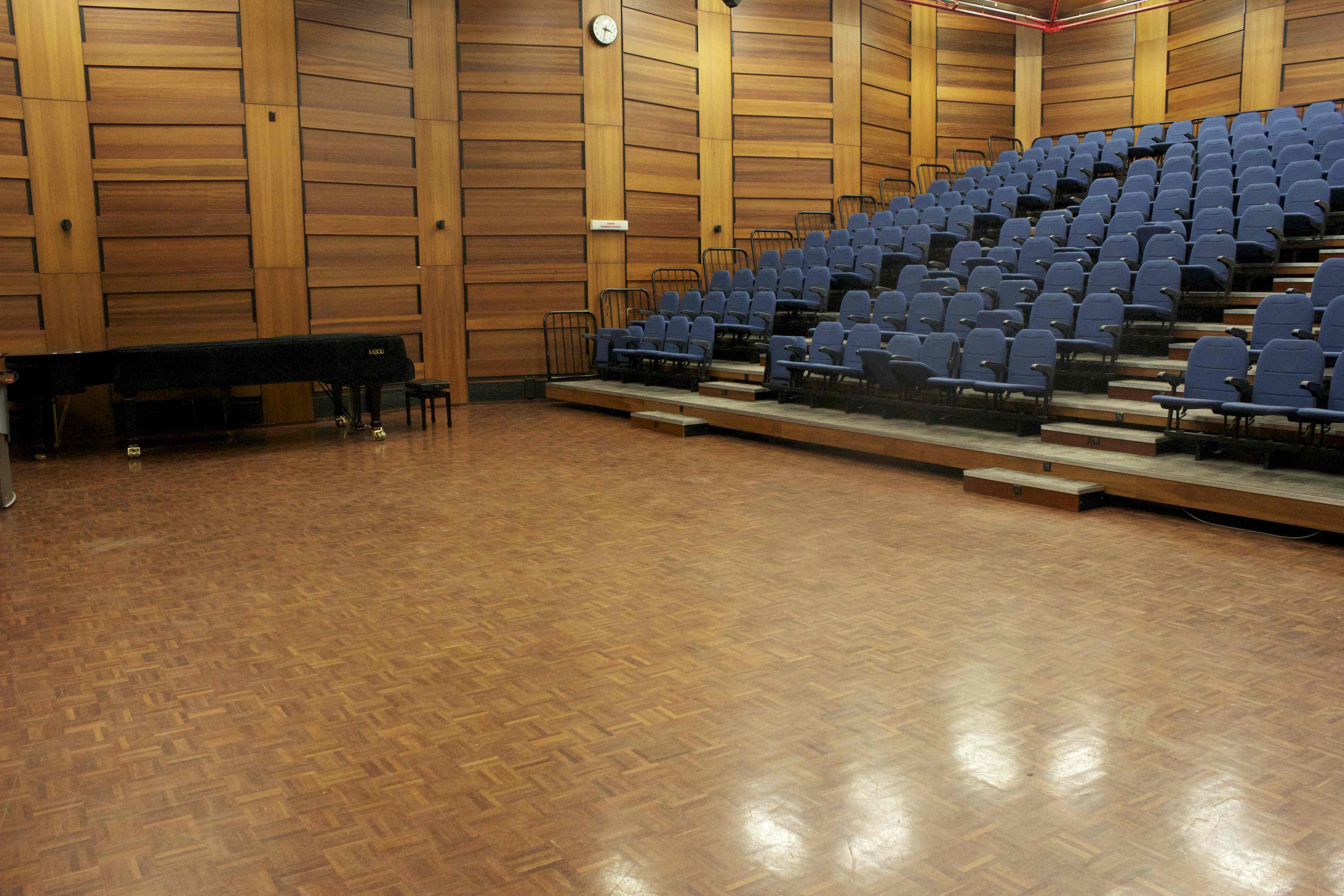 Callaway Auditorium at the University of Western Australia's School of Music. The retractable seats are fully extended.